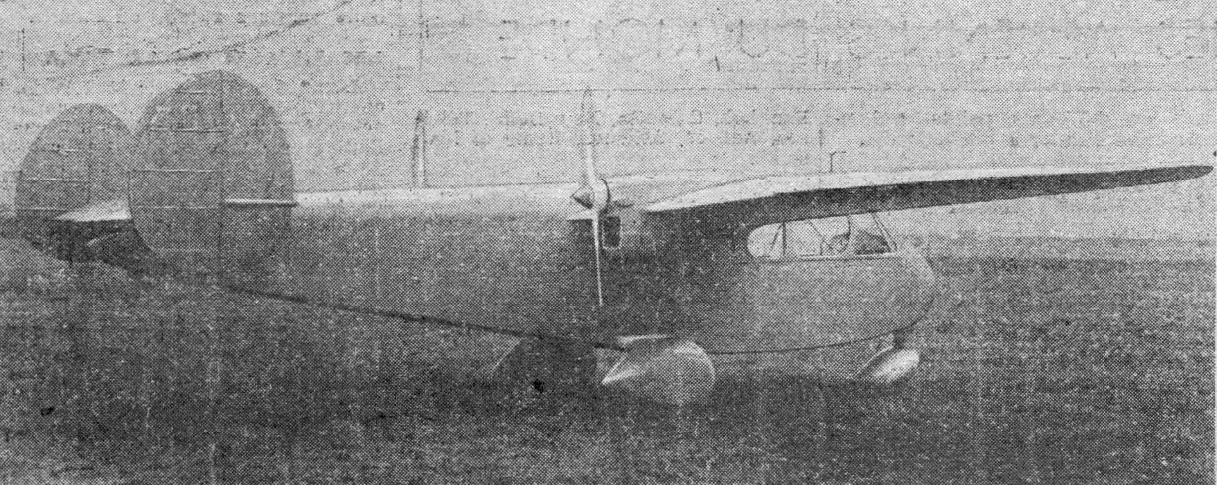 Praga E-210 photo from Les Ailes March 8, 1947